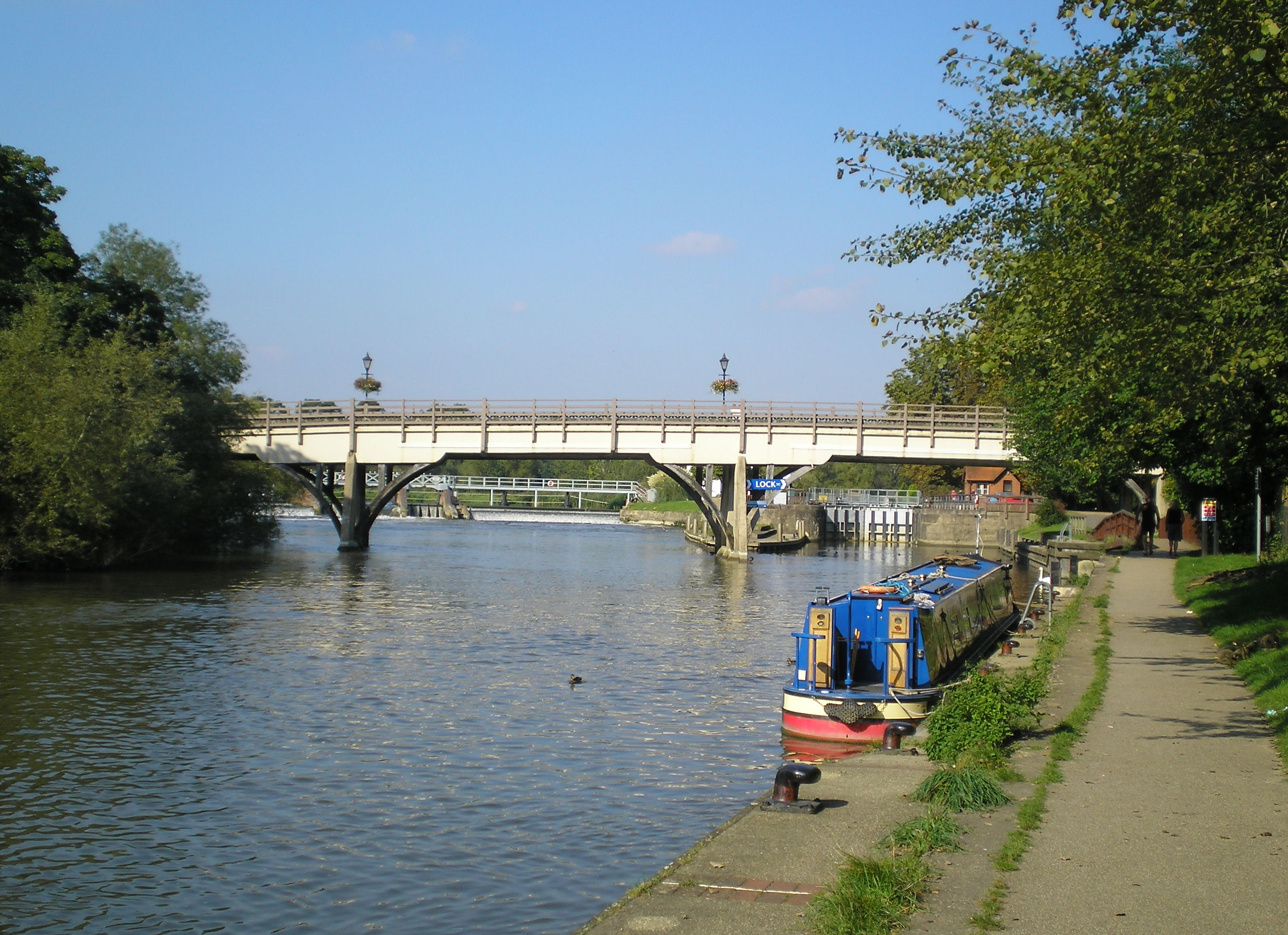 Goring and Streatley Bridge seen from the east bank of the river Thames, looking north. The lock is visible in the background.